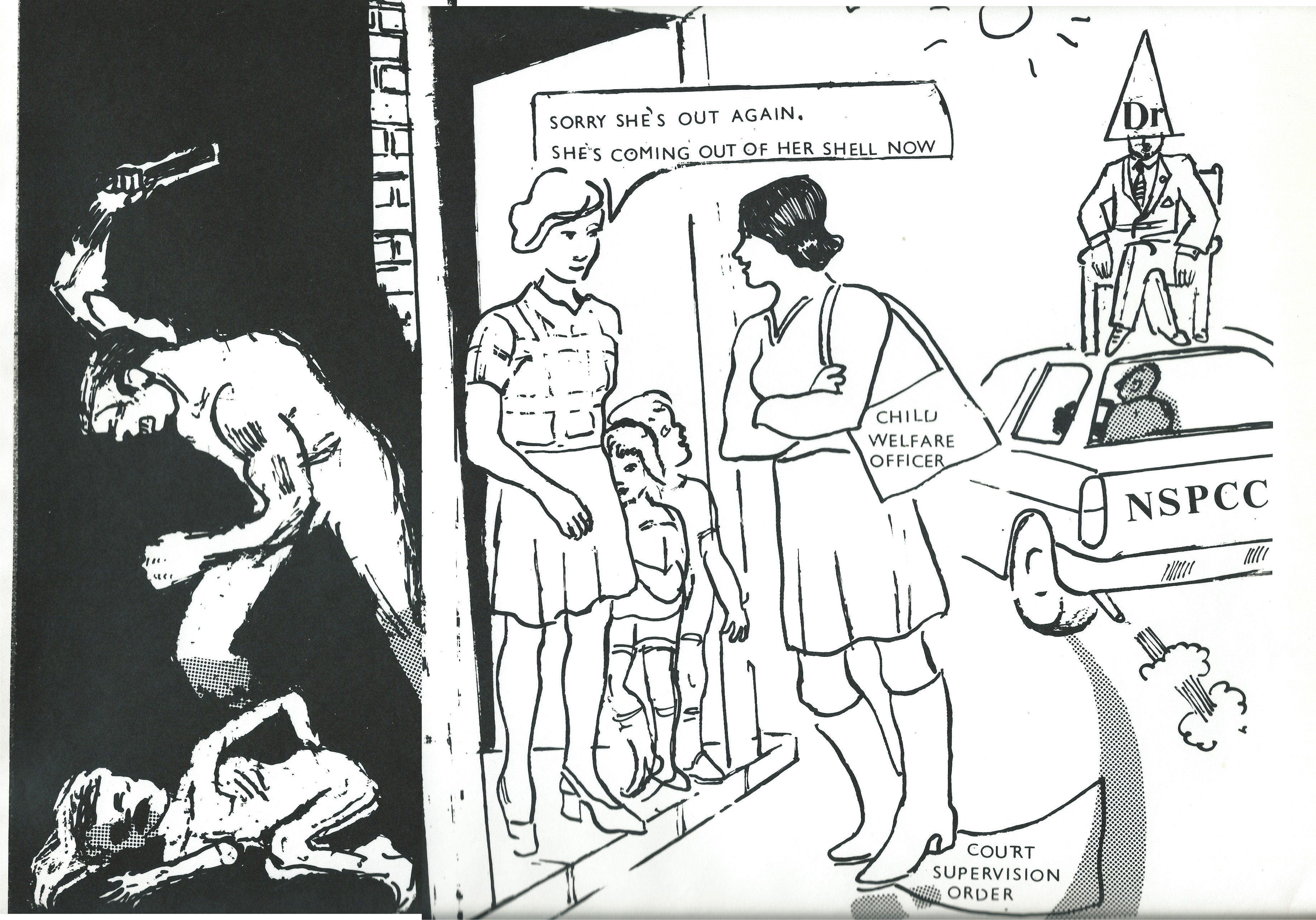 Coming out of her Shell 1973. Scene showing failures in prevention of child cruelty.